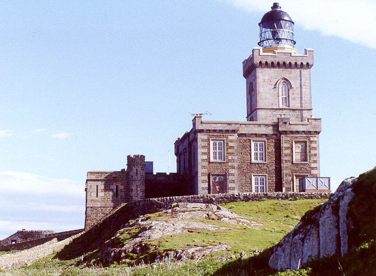 Stevenson lighthouse on the Isle of May, Scotland. © Jeremy Atherton, 2000.